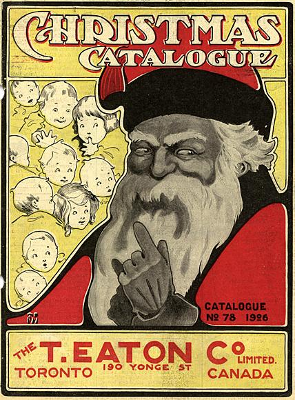 Cover of the Eaton's department store Christmas catalogue for 1906, showing an image of Santa Claus. Toronto, Canada.